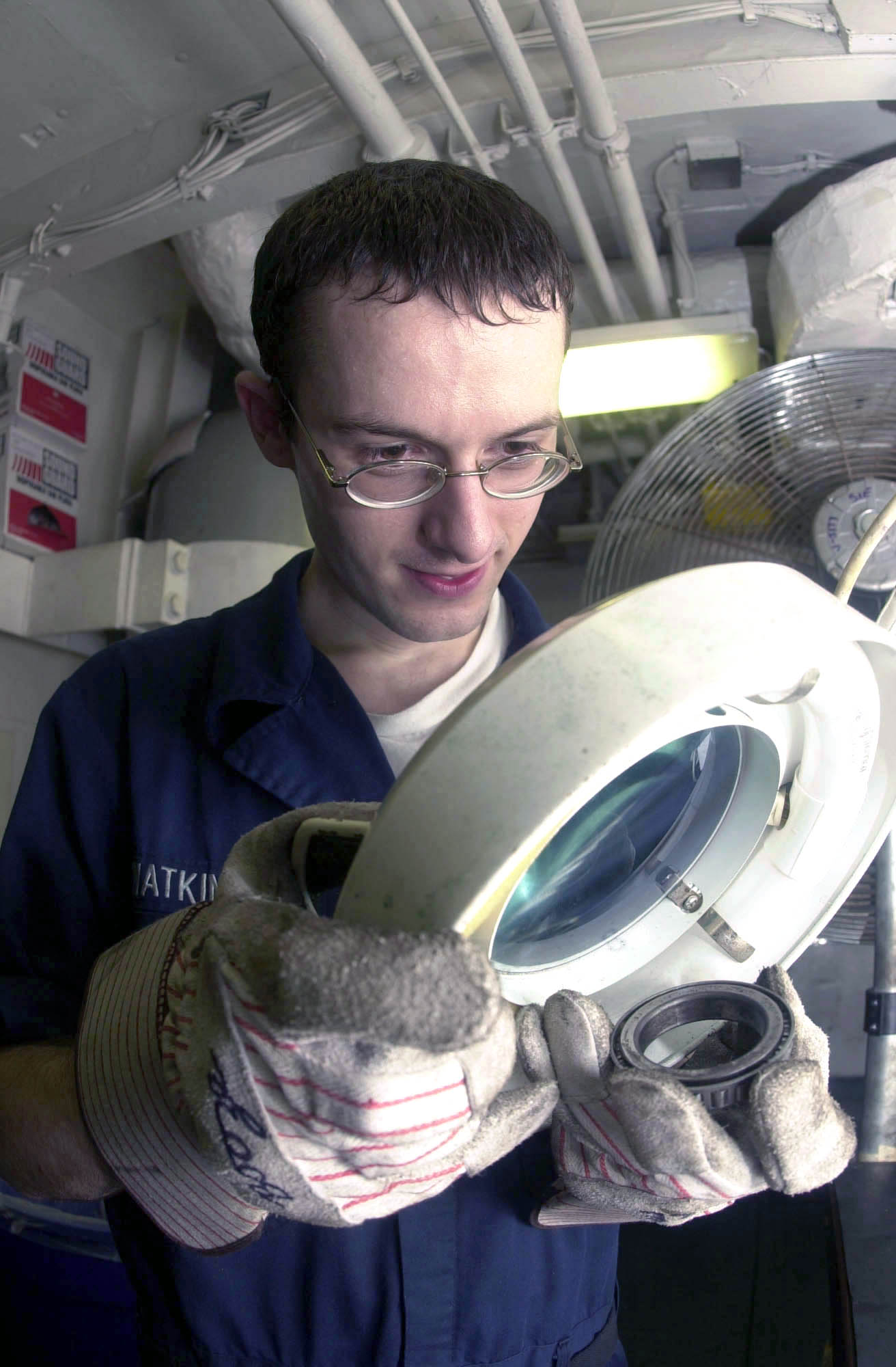 Central Command Area of Responsibility (Sept. 3, 2003) -- Aviation Structural Mechanic Airman John Watkins of Portland, Ore., uses a magnifying glass to check for defects on bearings used for aircraft tires aboard USS Nimitz (CVN 68). The Nimitz Strike Group and Carrier Air Wing Eleven (CVW-11) are deployed in support of Operation Iraqi Freedom, the multi-national coalition effort to liberate the Iraqi people, eliminate Iraq’s weapons of mass destruction, and end the regime of Saddam Hussein. U.S. Navy photo by Airman Maebel Tinoko. (RELEASED)